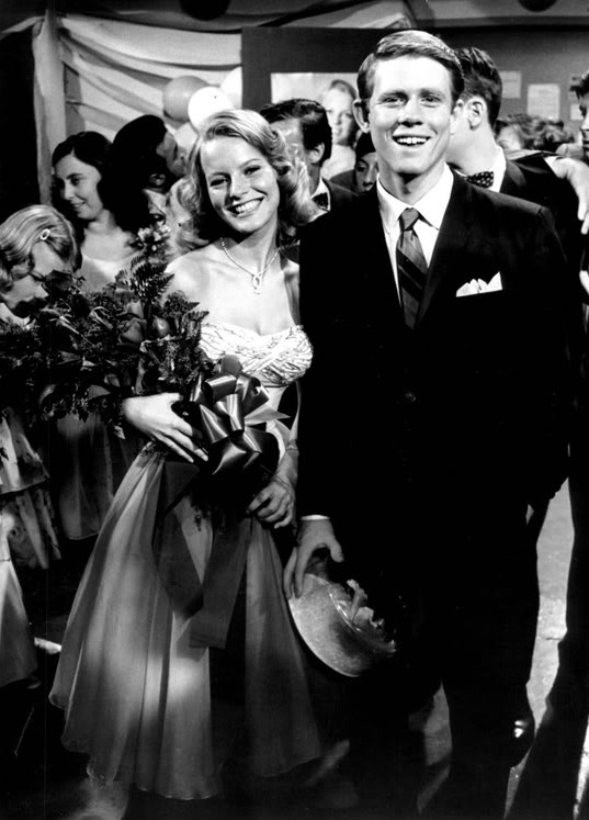 Photo from the television program Happy Days. In this episode, Richie (Ron Howard) wins a date with starlet Cindy Shea (Cheryl Ladd). He takes her to the Jefferson High School Victory Dance.